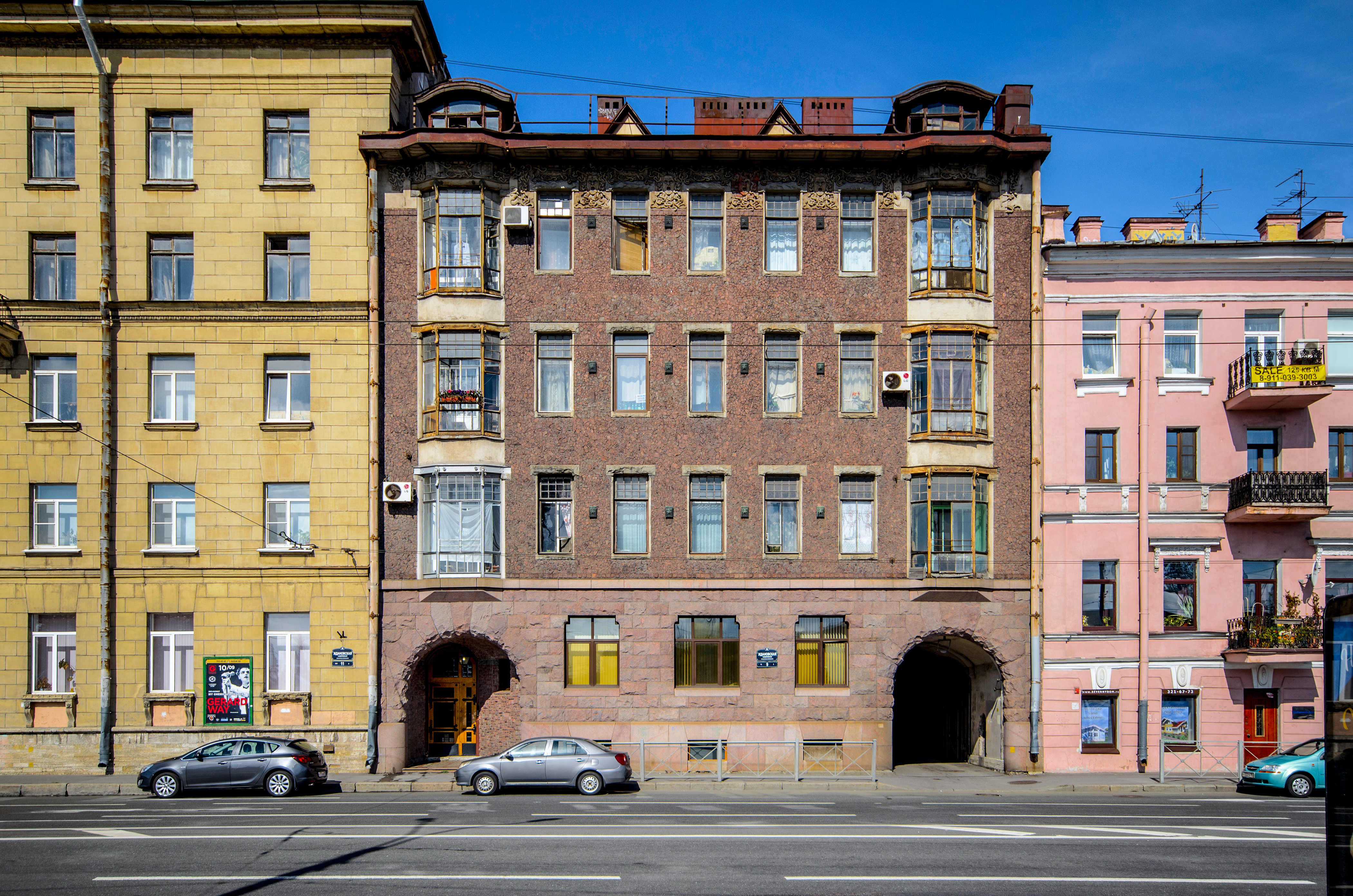 Meisner Apartment House at Zhdanovskaya Embankment in Saint Petersburg